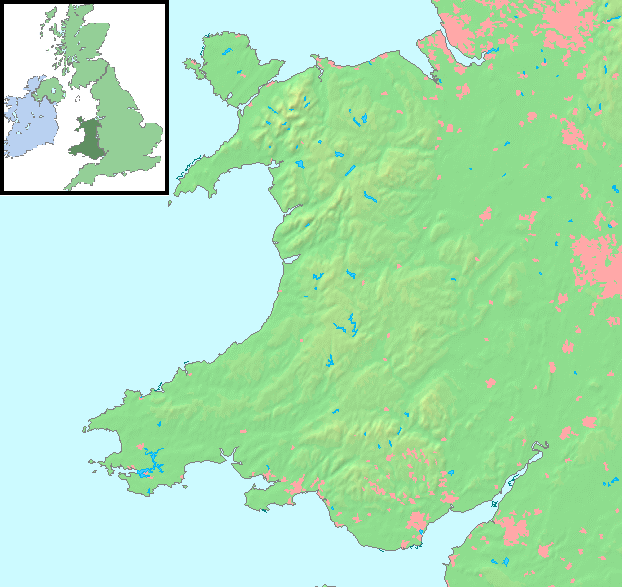 Wales, blank map with buildup areas